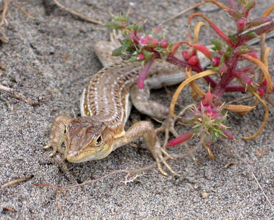 Red tail wall lizard (Acanthodactylus erythrurus) in Cabo de Gata-Níjar Natural Park (Almería, Andalusia).